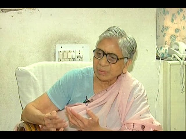 Muppala Ranganayakamma photo in an interview with TV9